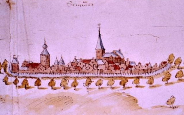 City of Zevenaar (Netherlands)